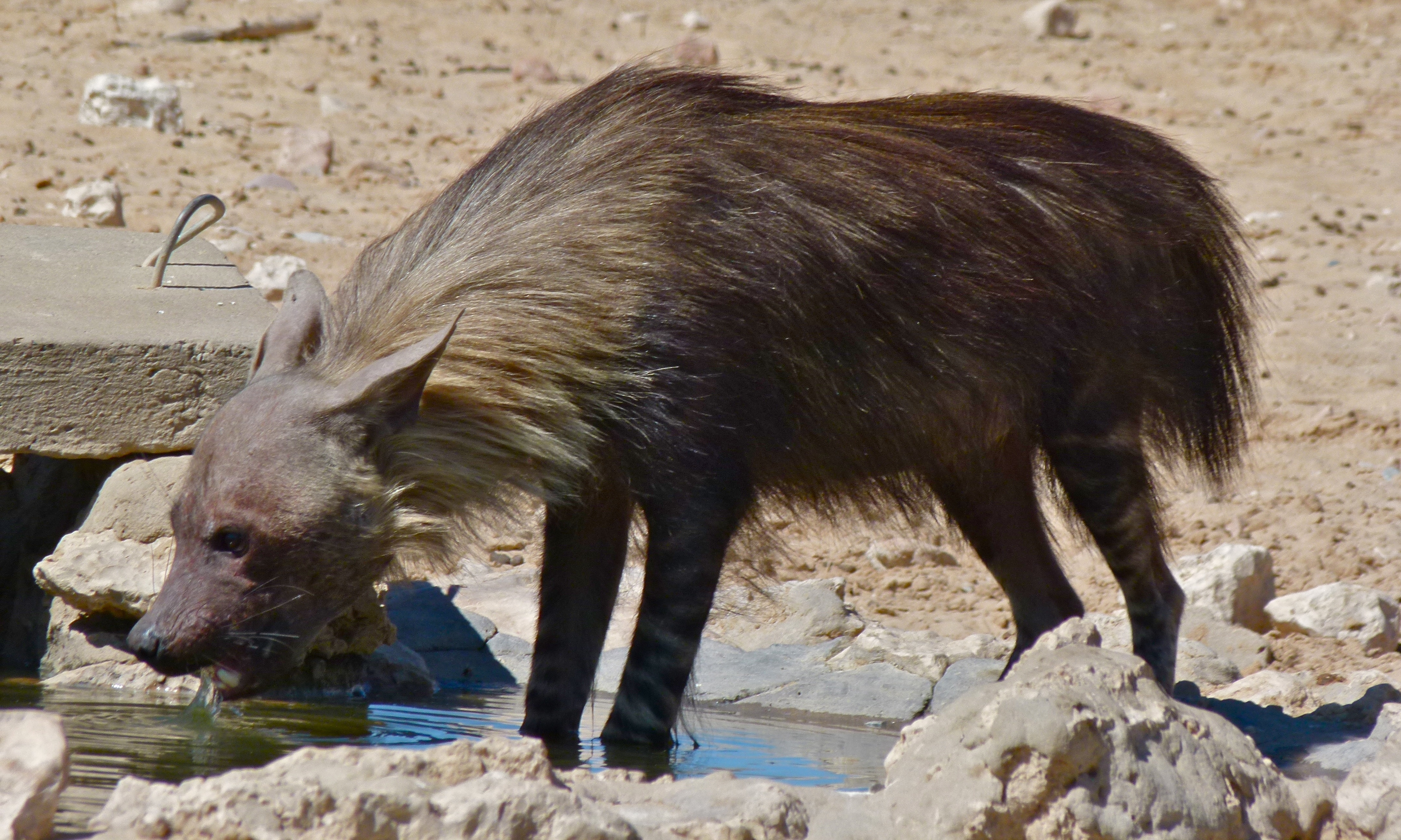 Union's End Waterhole, Kgalagadi Transfrontier Park, SOUTH AFRICA